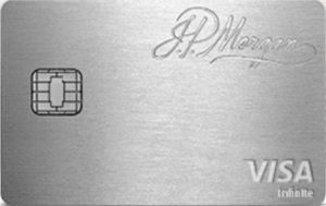 JP Morgan Reserve Credit Card